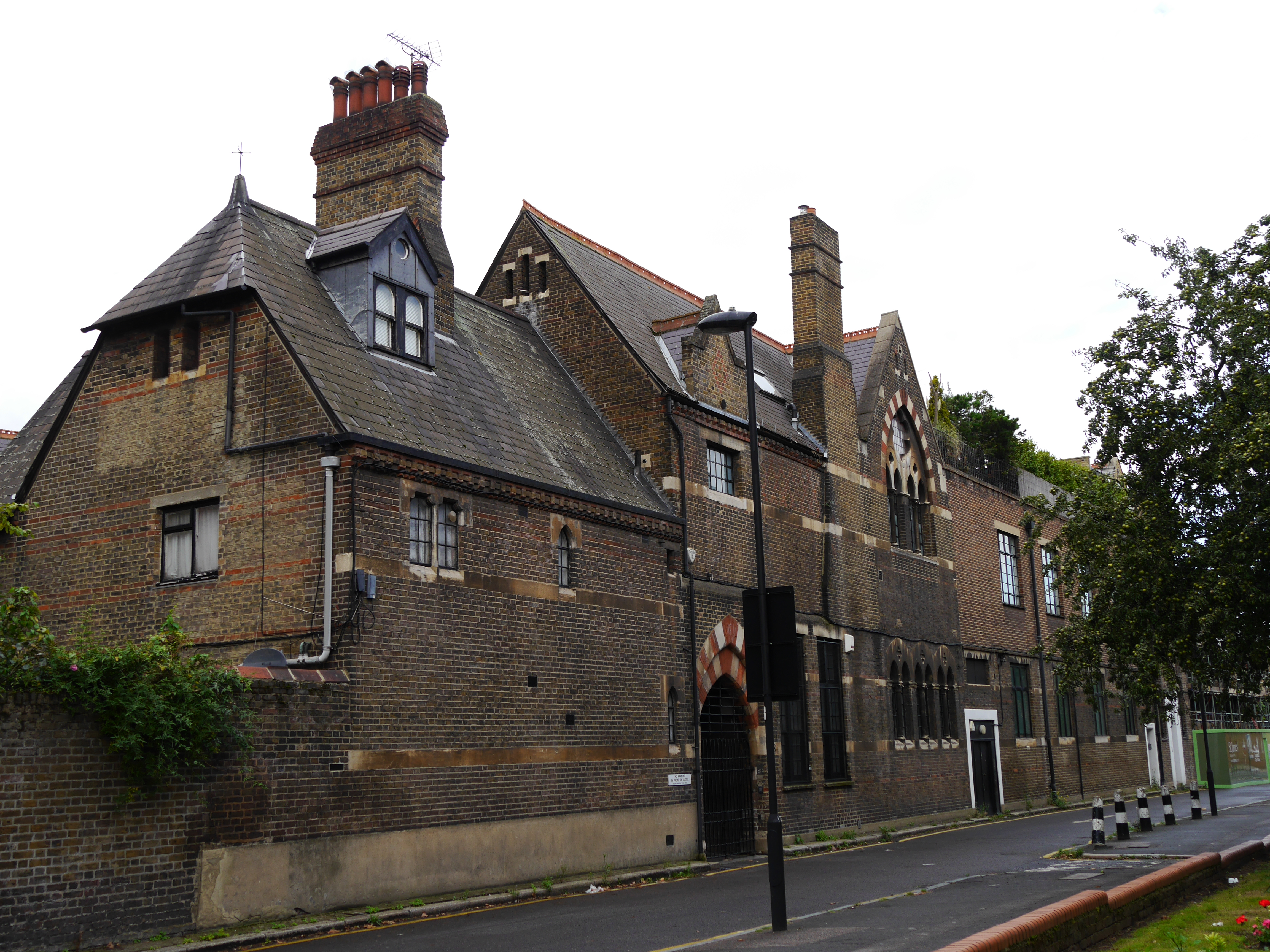 St Peter's School, Vauxhall, October 2014